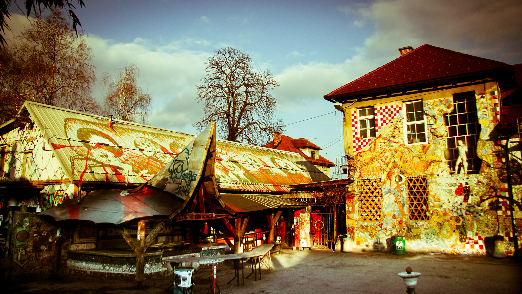 metelkova